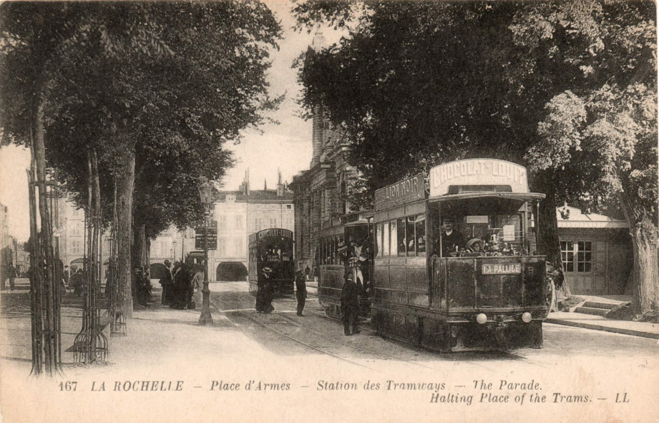 Mékarski compress air tram in La Rochelle (Charente-Maritime, France) around 1905, vintage postcard